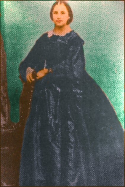 Rosario de la Peña b. 1847 ca. 1862